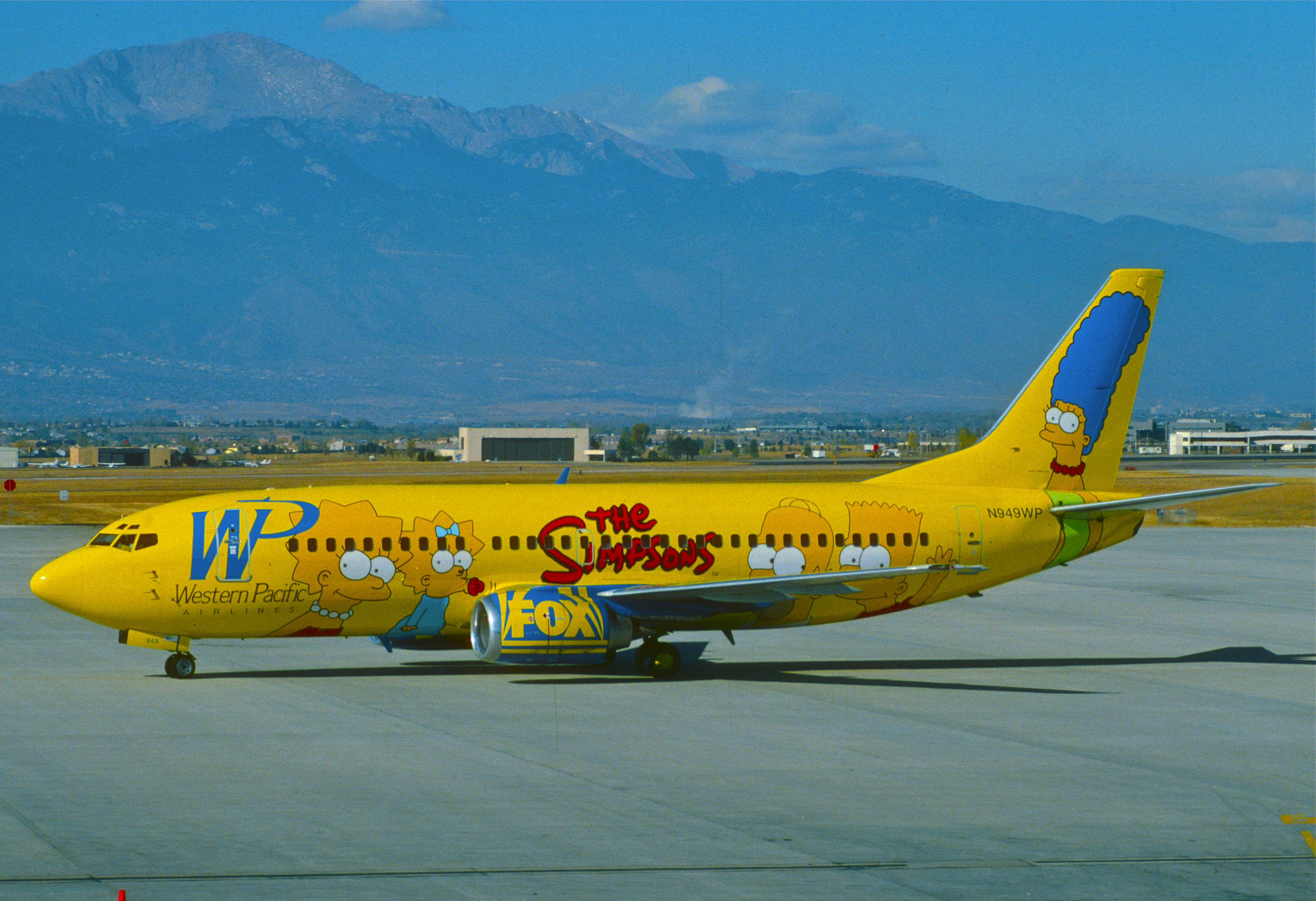 The famous Simpson-737 of Western Pacific... This Boeing 737-301 took its first flight on May 15, 1985...(c/n 23230/ 1115) 23/05/1985 PiedmontAirlines N304P 05/08/1989 US Air N302AU 07/06/1995 Western Pacific Airlines N949WP 08/05/1998 Southwest Airlines N660SW A shot of the same 737 eight years later